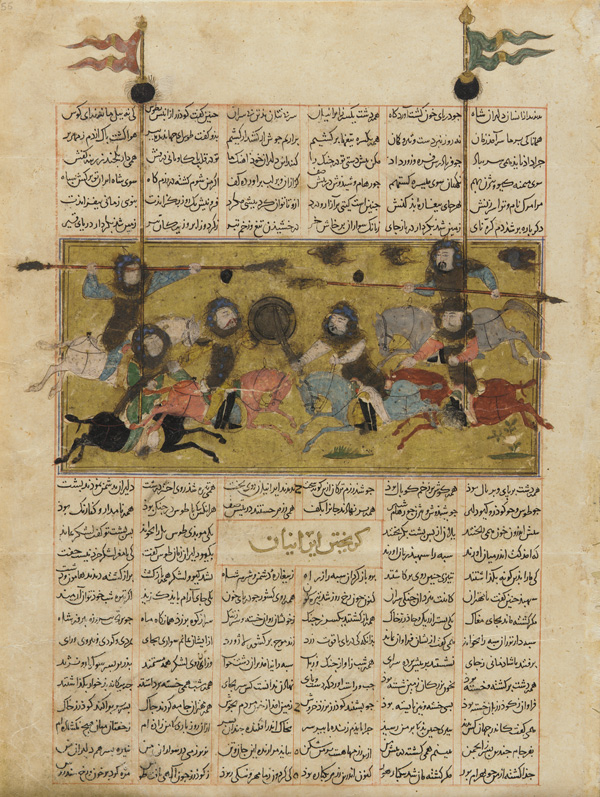 Folio (A battle between the hosts of Iran and Turan during the reign of Kay Khusraw) from Shahnameh (Book of Kings).